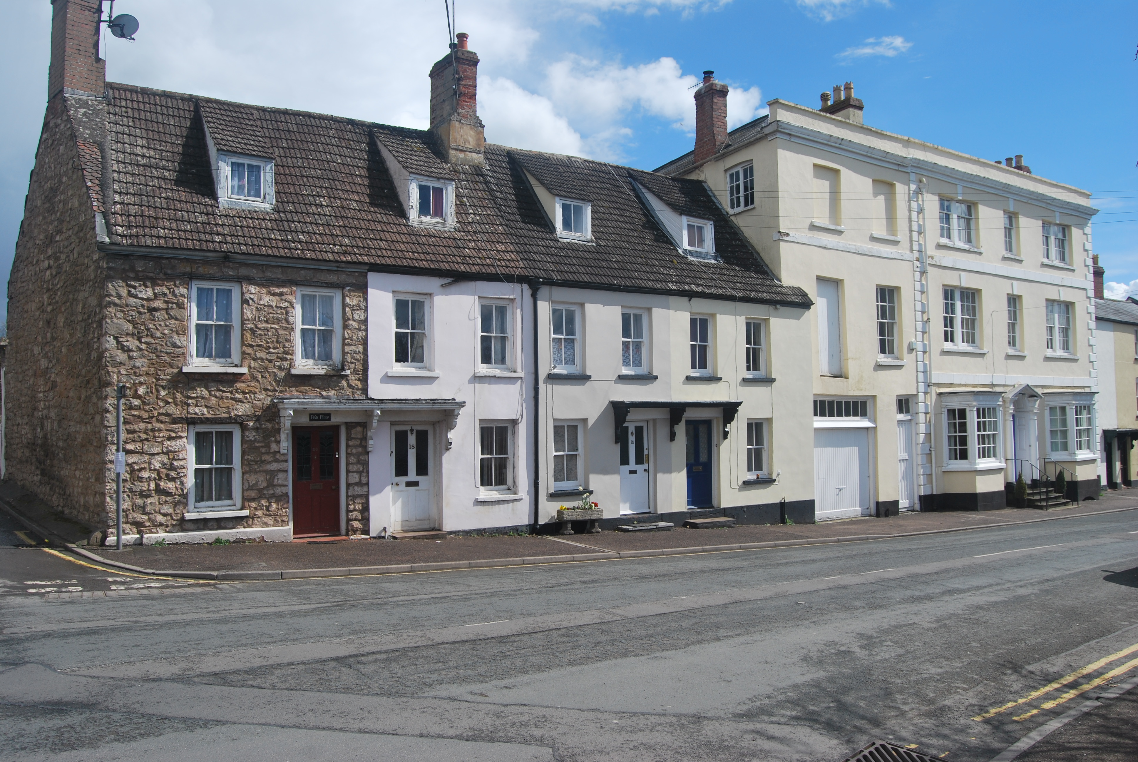 North Parade House, Monmouth - Context